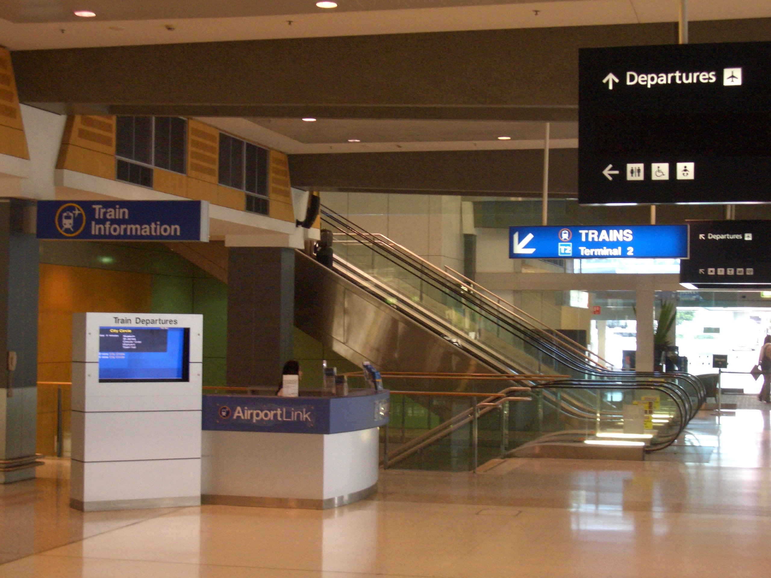 Domestic_Terminal_Railway Station